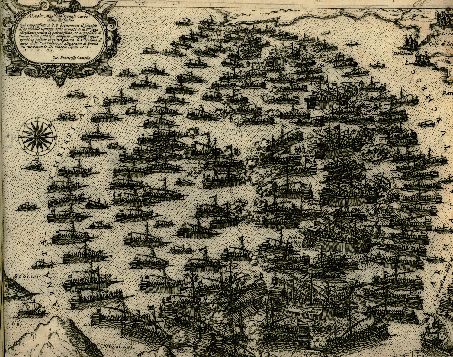 Giovanni Francesco Camocio. Isole famose porti, fortezze, e terre maritime sottoposte alla Ser.ma Sig.ria di Venetia, ad altri Principi Christiani, et al Sig.or Turco, Venice, alla libraria del segno di S.Marco (1574)